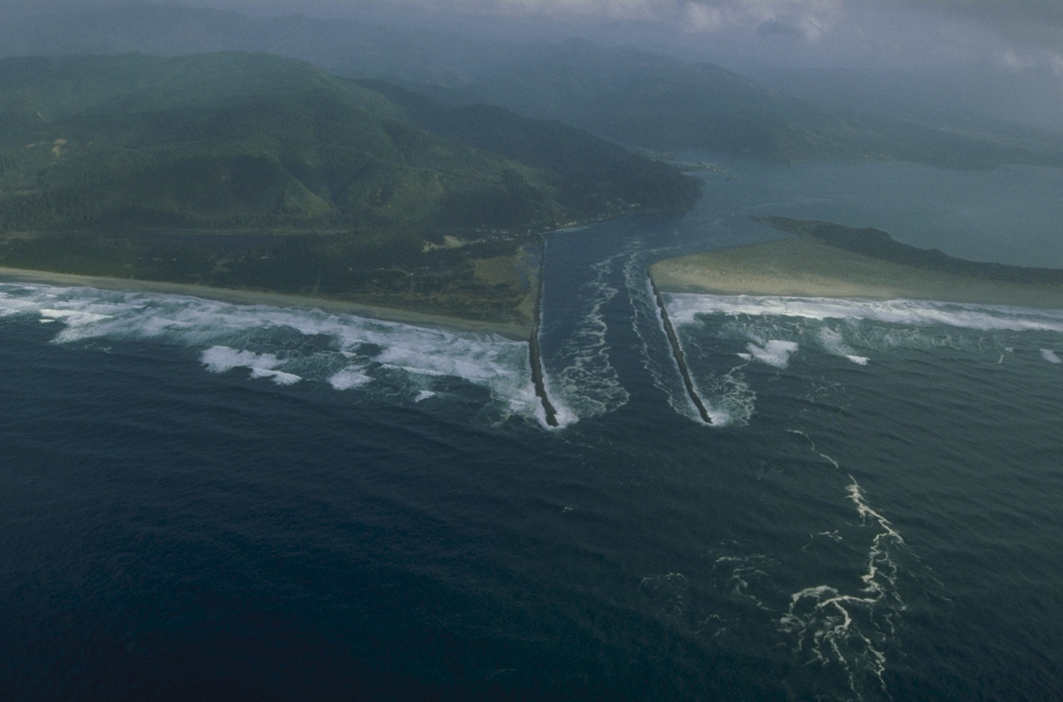 Aerial view of the outlet of Tillamook Bay on the Pacific Ocean, Tillamook County, Oregon, USA. The Tillamook River empties into the Pacific Ocean through the bay.